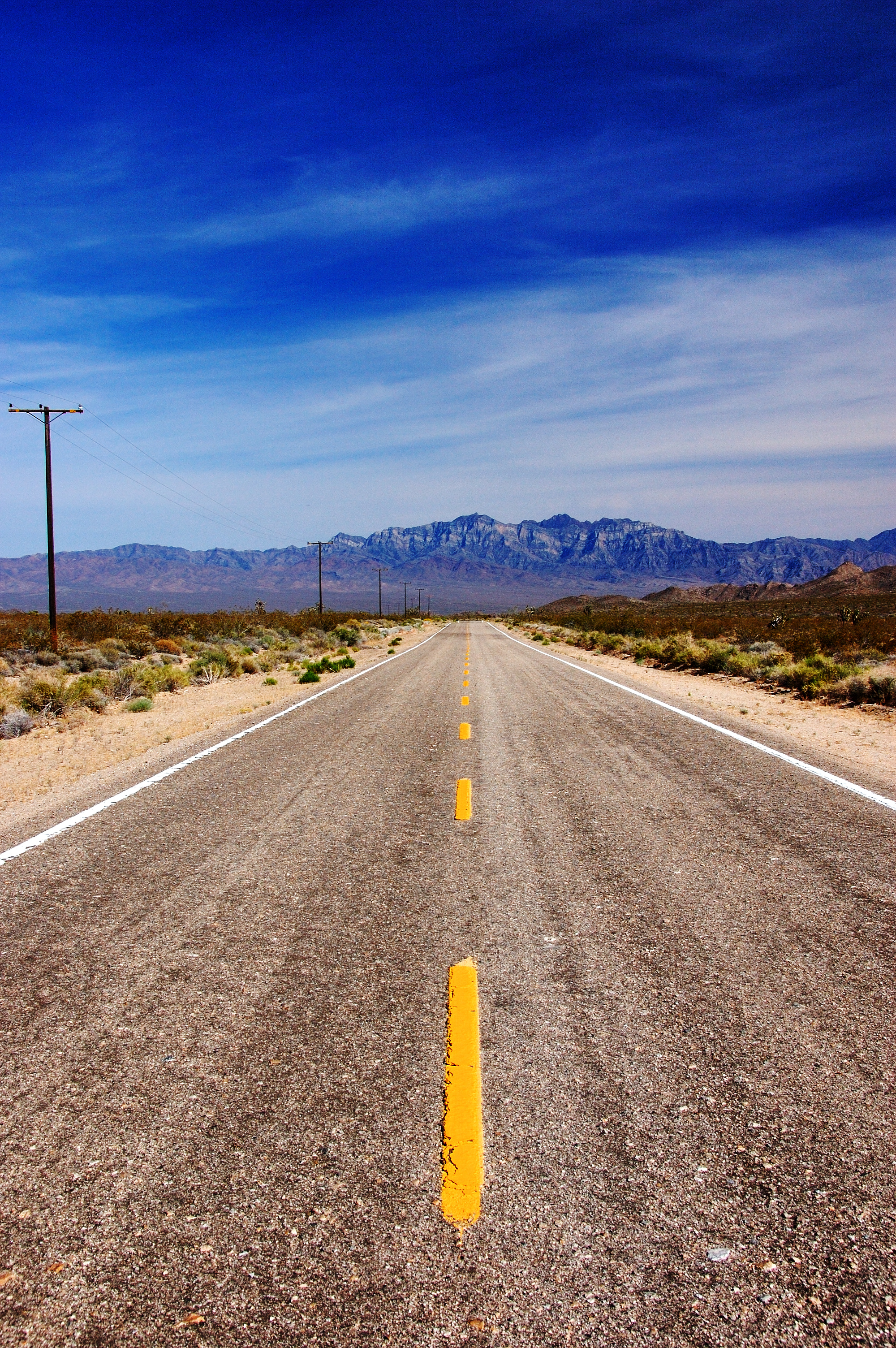 Kelbaker Road in the Mojave Desert - in the Mojave National Preserve, with the Providence Mountains in the background. Image captured with a circular polarizer.